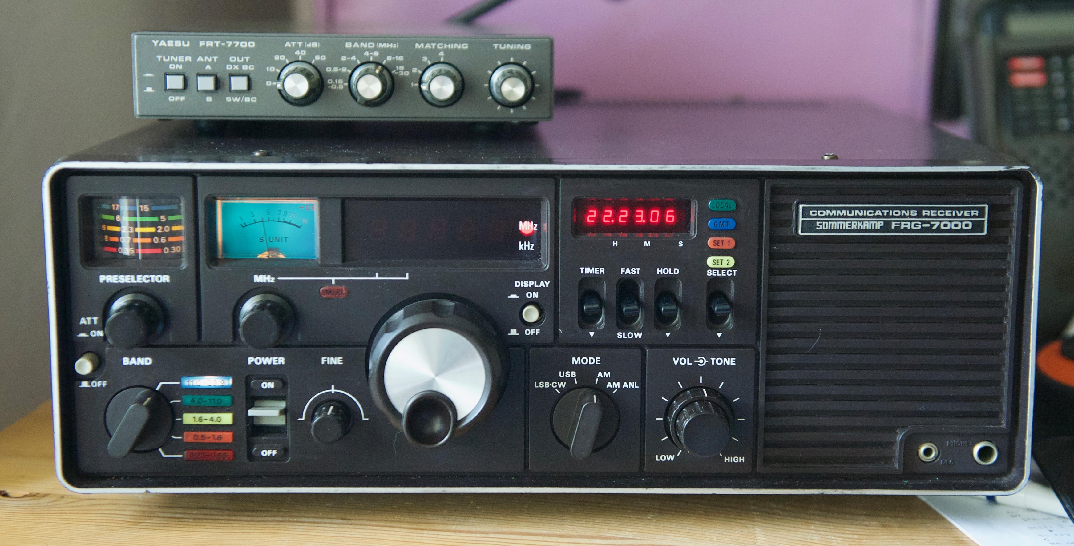 Shortwave radio receiver Yaesu FRG-7000 with the Wadley loop